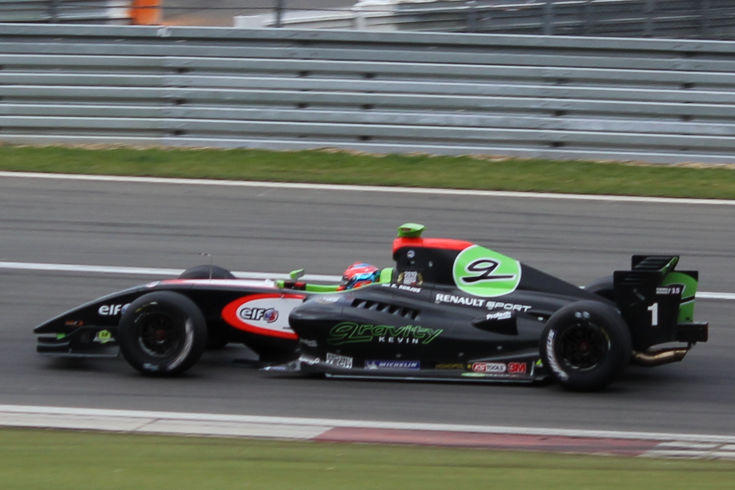 Kevin Korjus at the 2011 Nürburgring World series by Renault round during the race